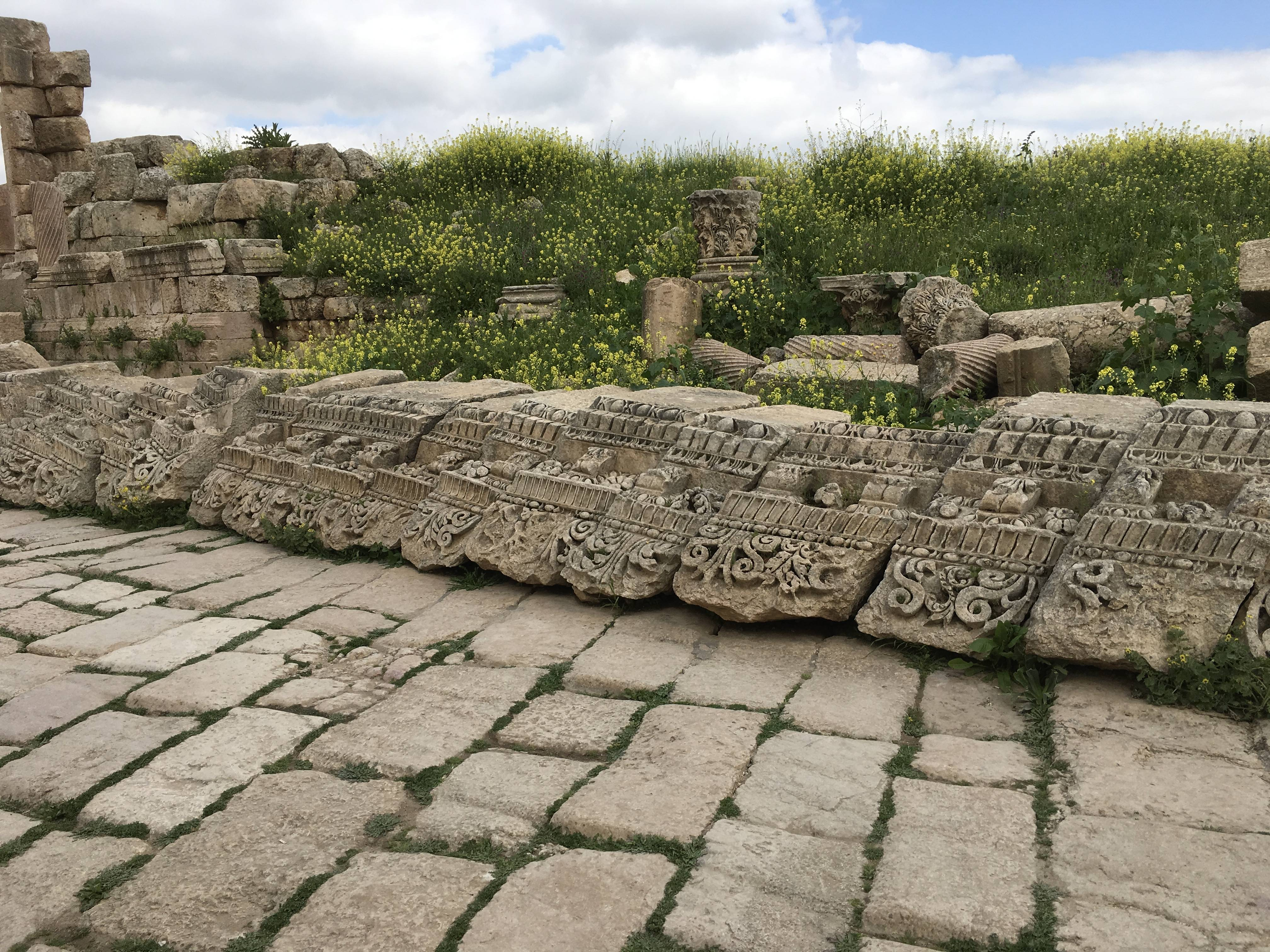 Propylaea portic parts